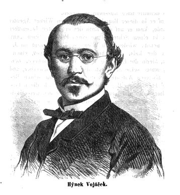 Portrait of Hynek Vojáček (1825-1916), Czech musician and composer active mainly in Russia.